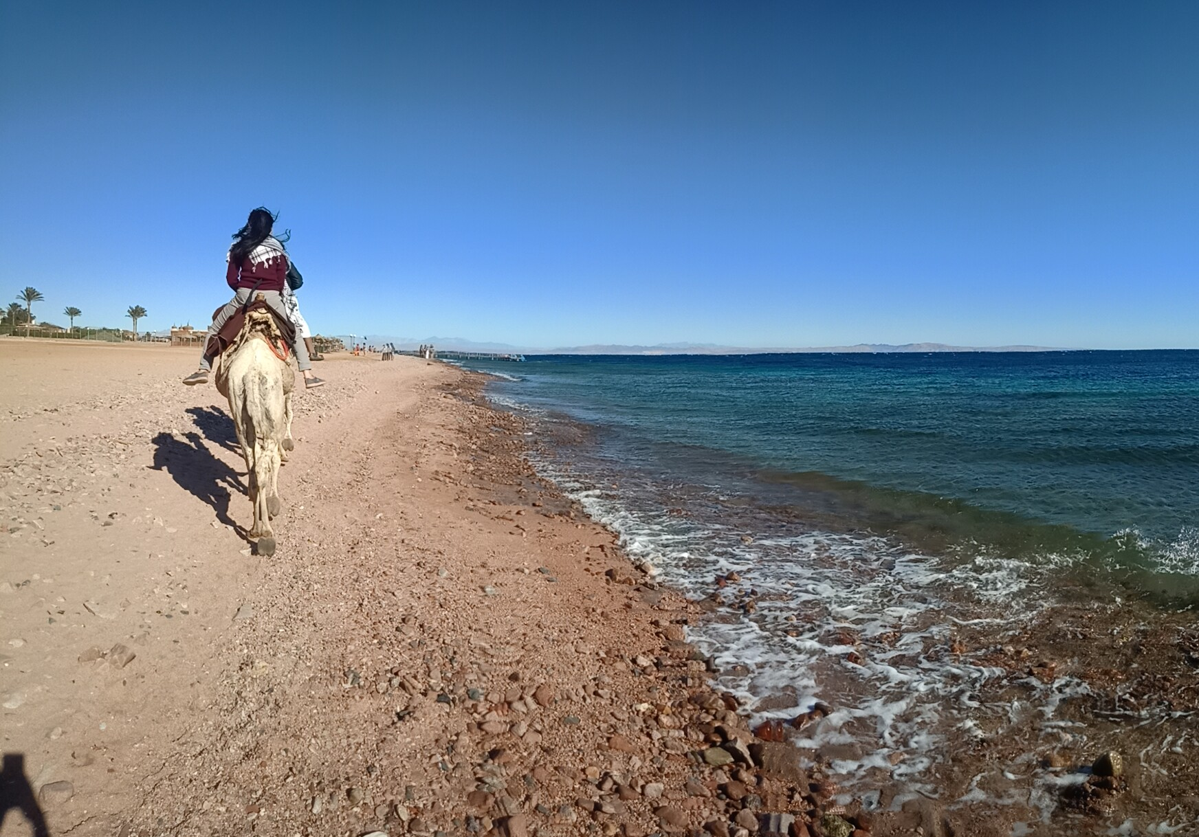 This is an image with the theme "Africa on the Move or Transport" from: Egypt